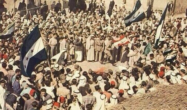 The people of Deir ez-Zor, Syria, celebrate the independence from France. 1946.